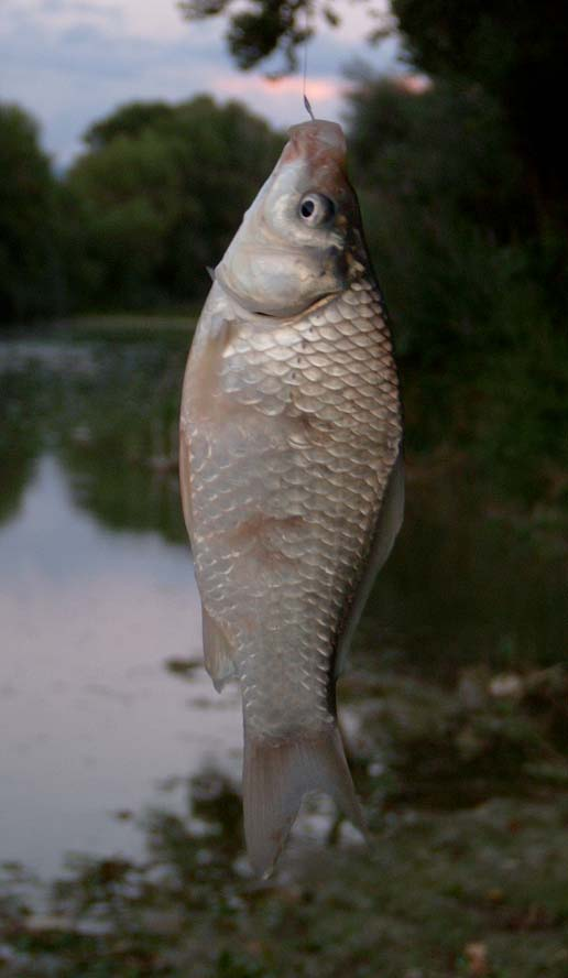 Carassius auratus wild caught in Ombrone river, in Tuscany, Italy